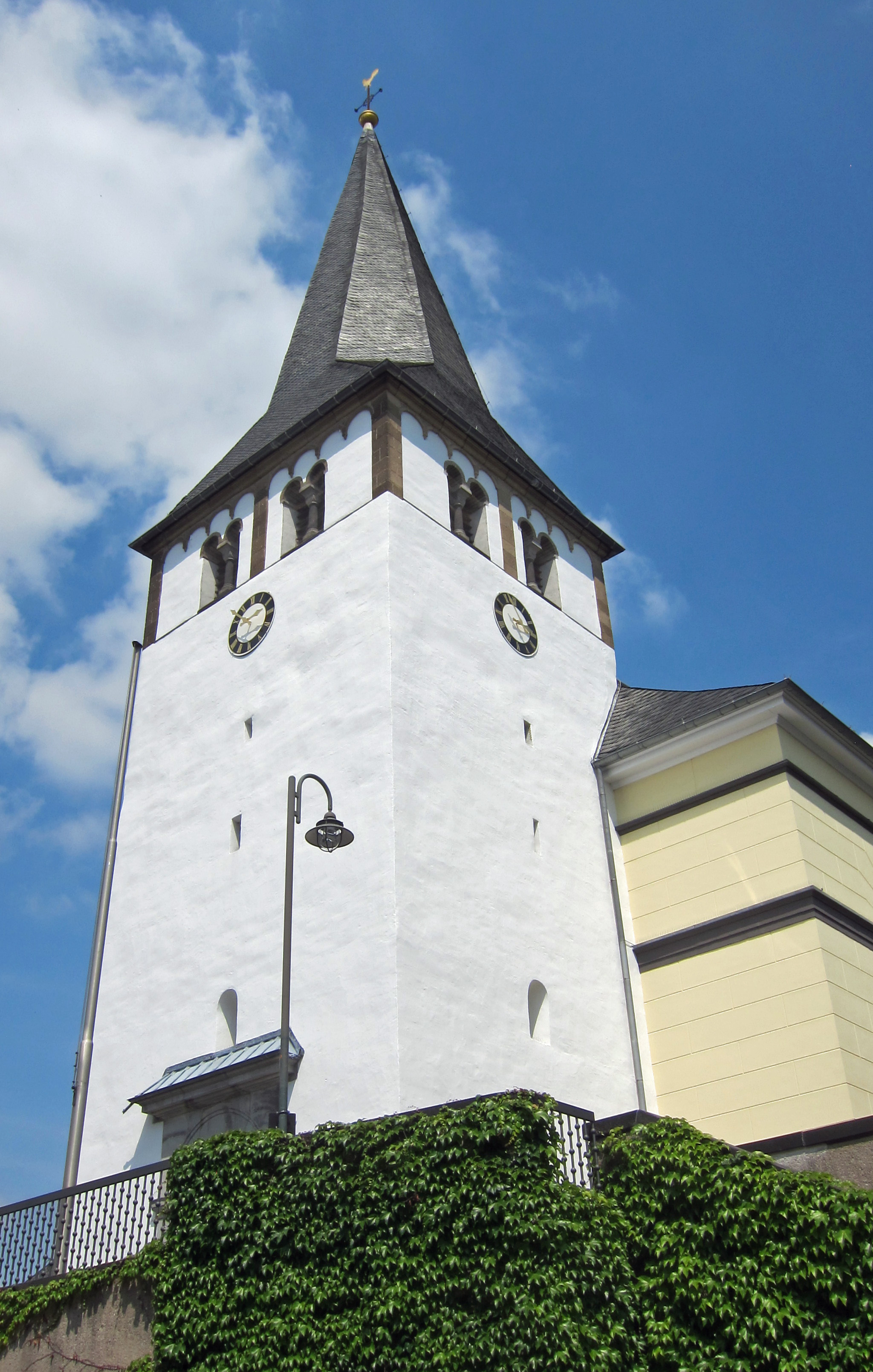 tower of St. Johannes church in Sieglar, Germany